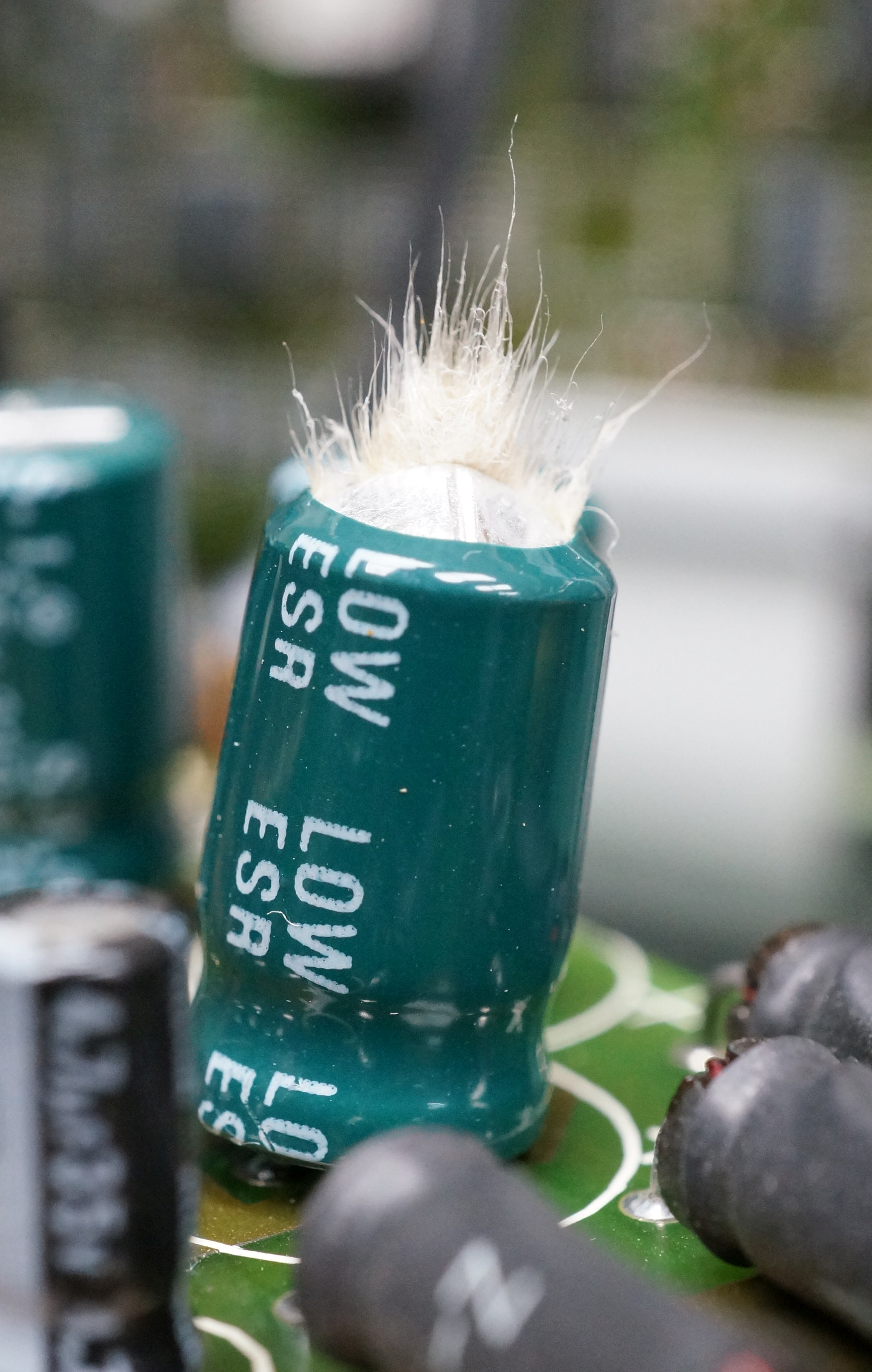 An Electrolytic capacitor that has exploded via the vent port on the top due to reverse voltage, showing the internal dielectric material that was forced out in the explosion.